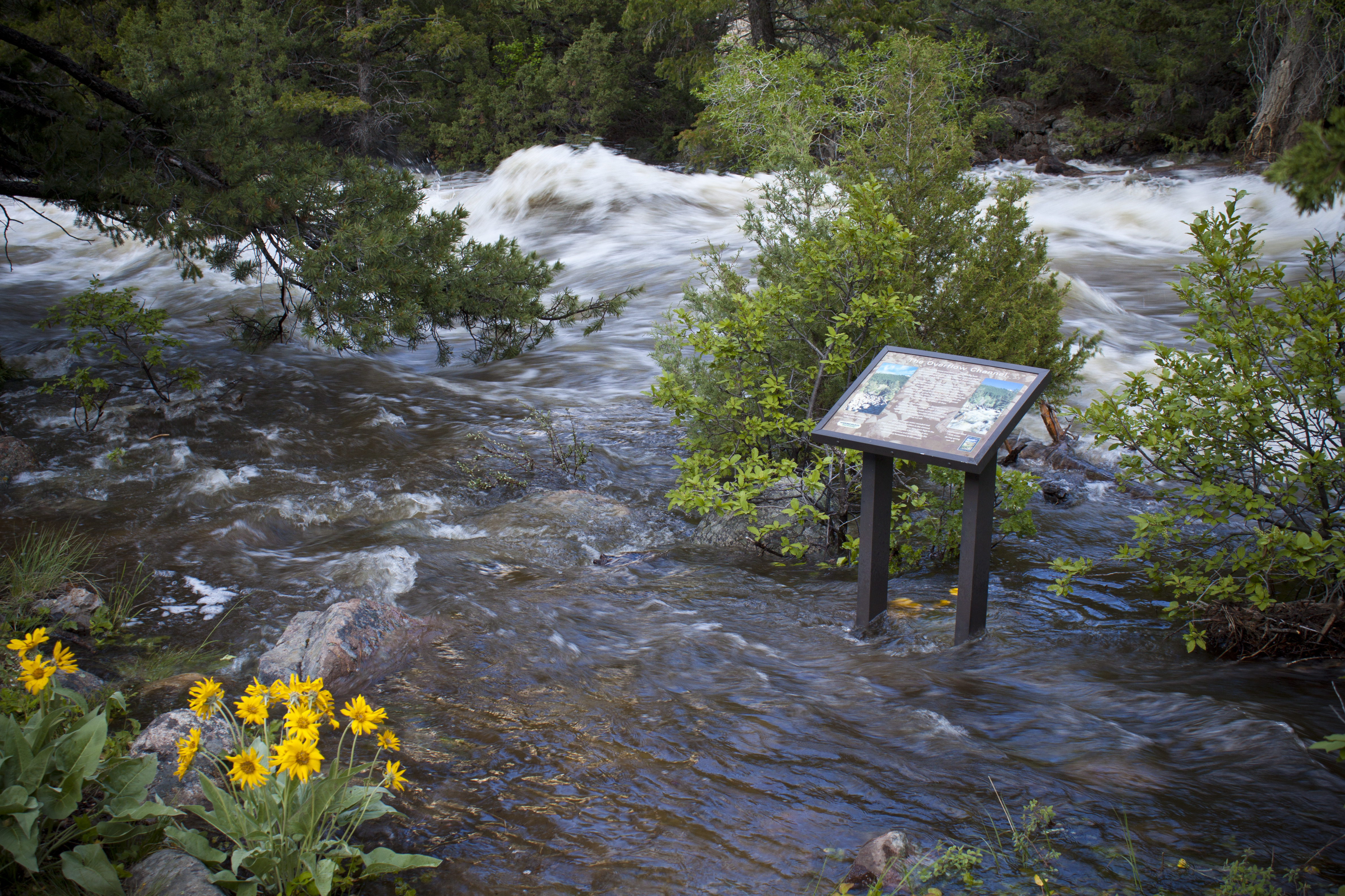 "Overflow" might be a bit of an understatement...